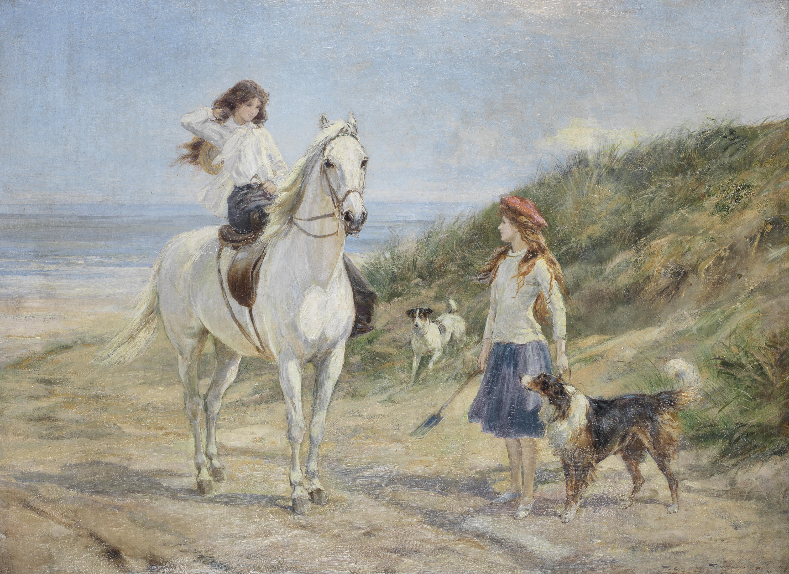 Holiday time; signed 'Heywood Hardy' (lower right); inscribed 'No.2/Holiday Time/Heywood Hardy/6 Finchley Place/Finchley Road/N.W.' on a label attached to the reserve; oil on canvas; 45.5 x 61 cm